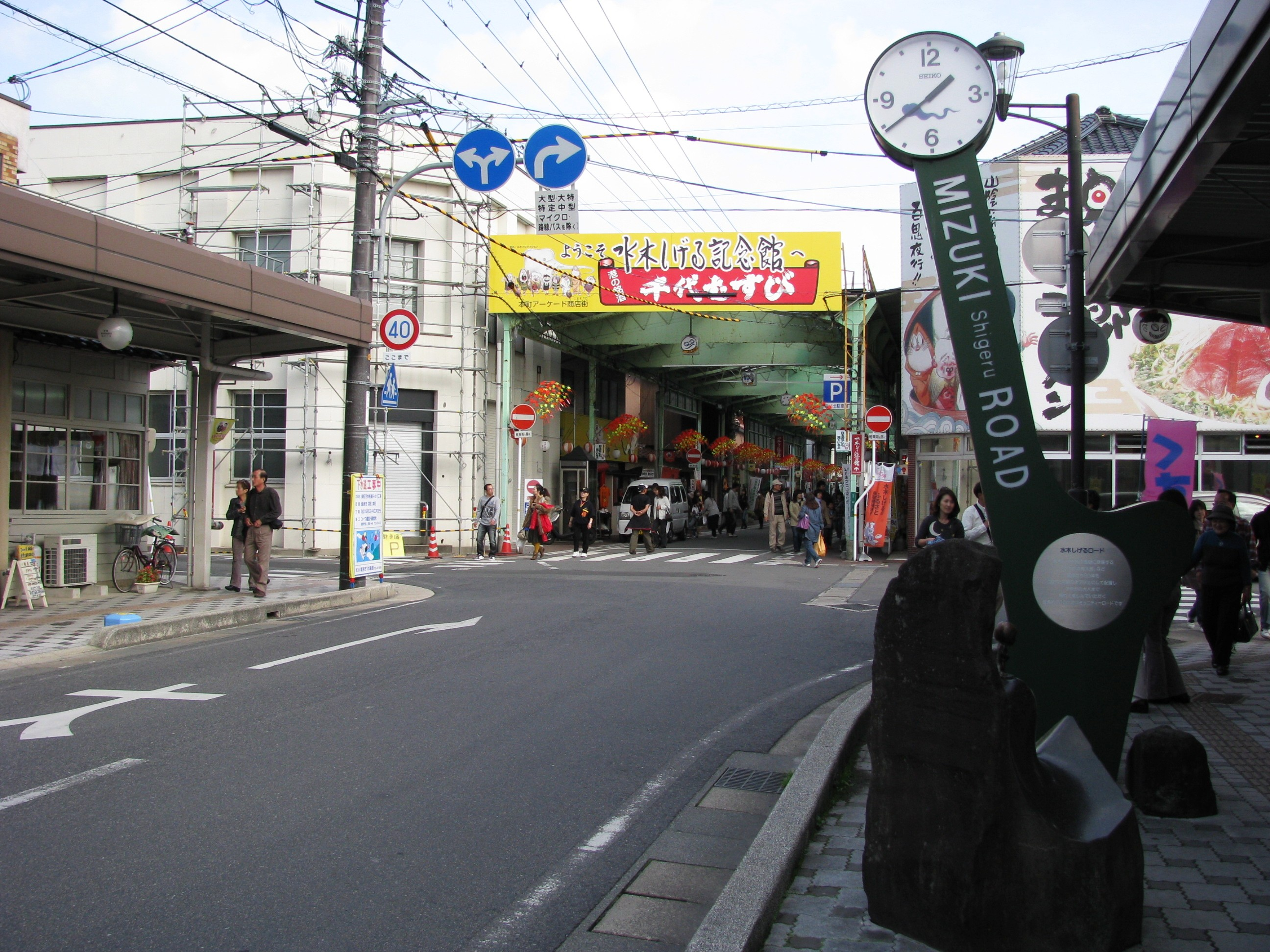 The Mizuki Shigeru Road. This place is Sakaiminato, Tottori Prefecture, Japan.